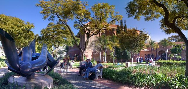 View of the Economic and Management Sciences building on the Hatfield campus of the University of Pretoria